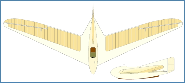 Pianna Canova FPC Flying Wing